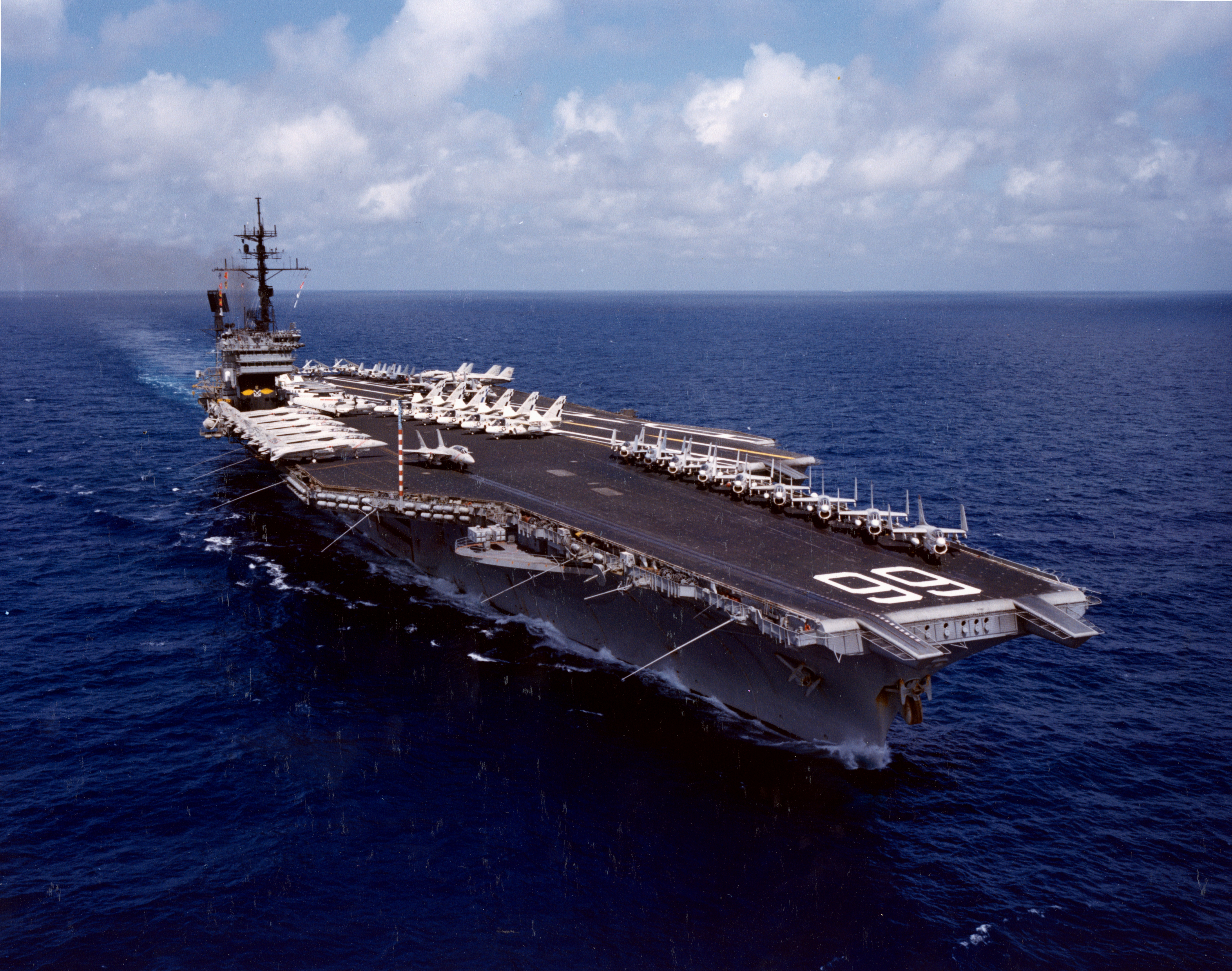 The U.S. Navy aircraft carrier USS America (CV-66) underway in the Indian Ocean, 24 April 1983. America, with assigned Carrier Air Wing 1 (CVW-1), was deployed to the Mediterranean Sea and the Indian Ocean from 8 December 1982 to 2 June 1983.